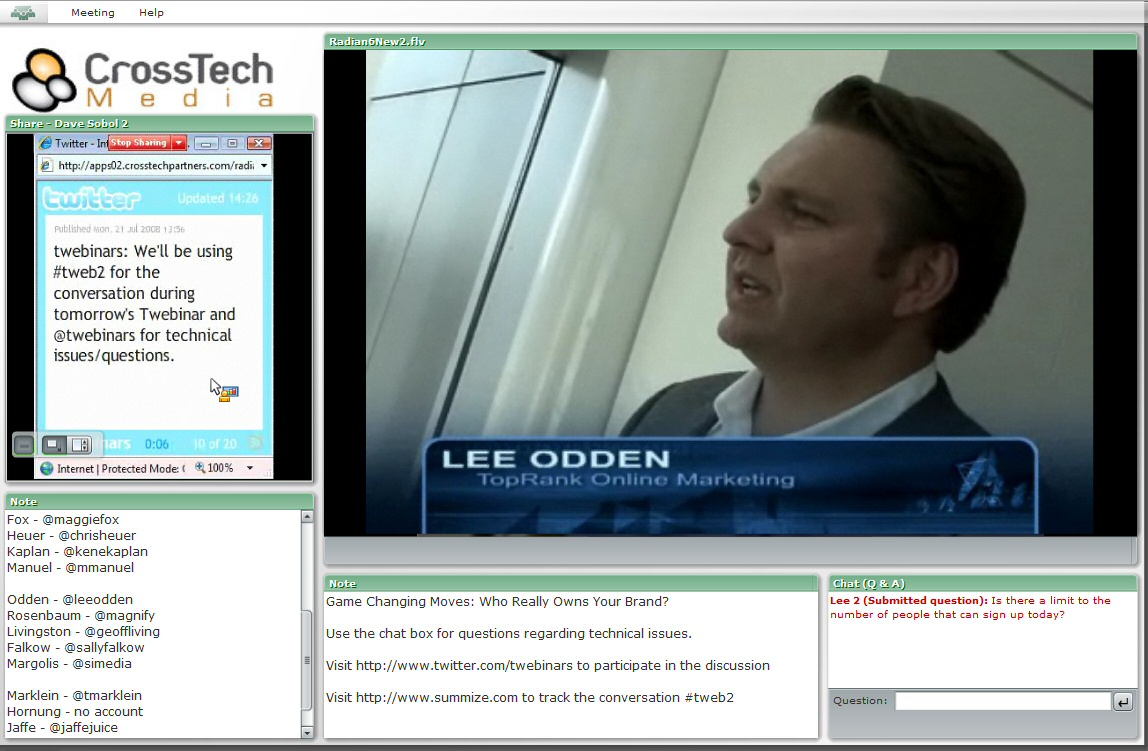 Who really owns a company brand?